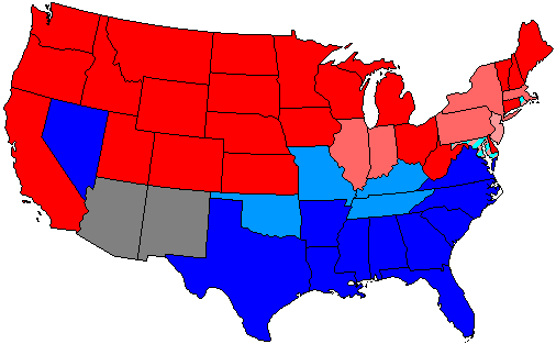 Summary of party control of U.S. house seats in the 60th United States Congress following election. Stripes indicate a tie between two or more parties. Legend: 80.1-100% Democratic seat majority 60.1-80% Democratic seat majority 60% or less Democratic seat plurality 60% or less Republican seat plurality 60.1-80% Republican seat majority 80.1-100% Republican seat majority